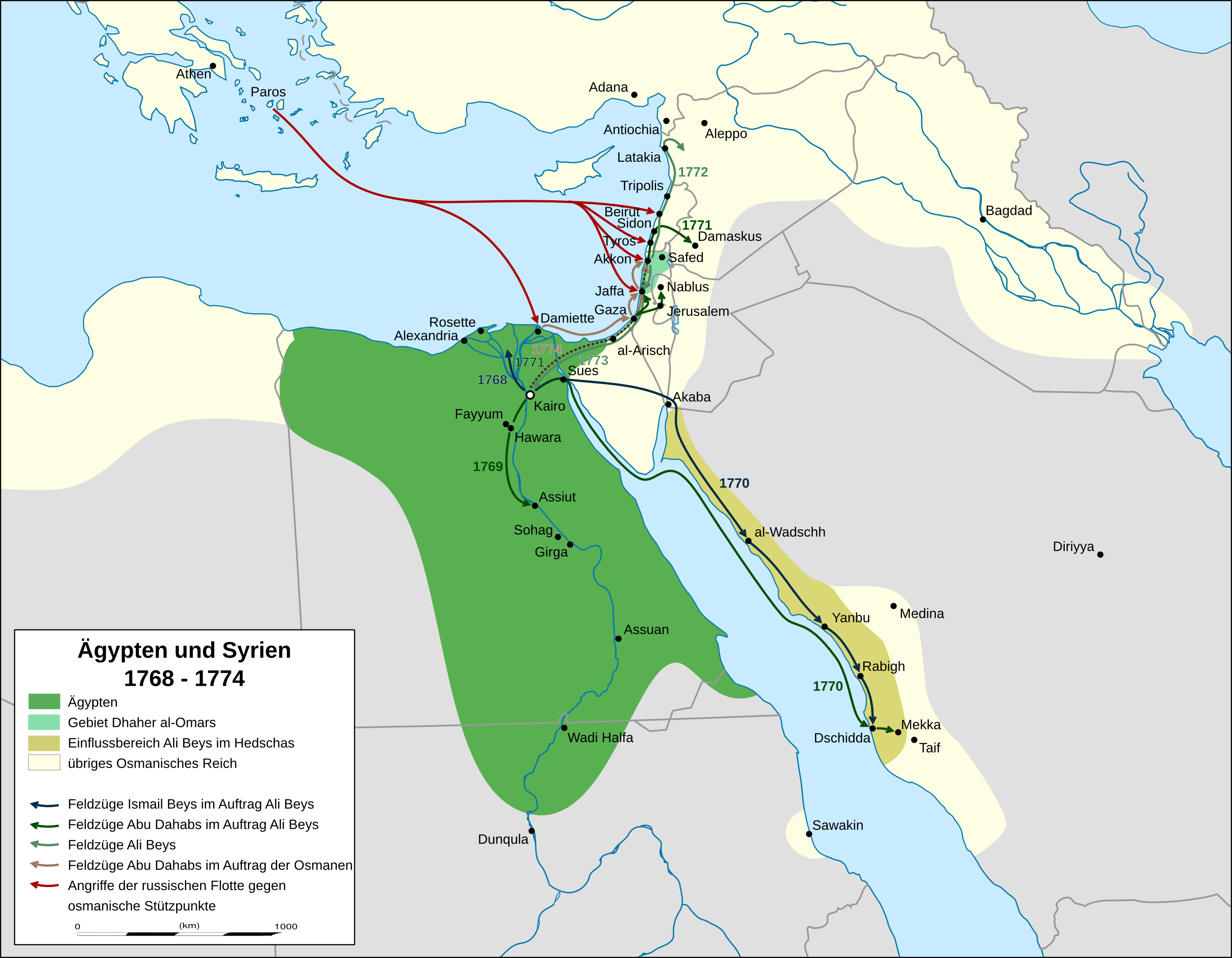 map of mamluk egypt, palestine and syria 1768 to 1774. campaigns and advances according to Sauveur Lusignan: A history of the Revolution of Ali Bey against the Ottoman Porte (London 1783) and Meyers Konversationslexikon, vol. 1, page 359 (Leipzig, 4th edition, 1885-1892)